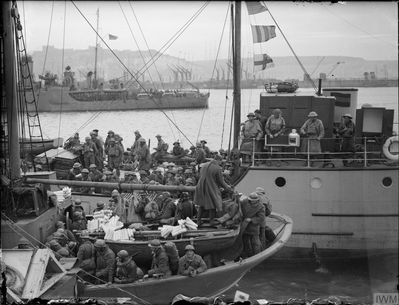 The British Army in the UK- Evacuation From Dunkirk, May-june 1940 French and British troops on board ships berthing at Dover, 31 May 1940.